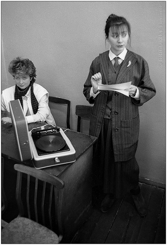 Students learn foreign language.